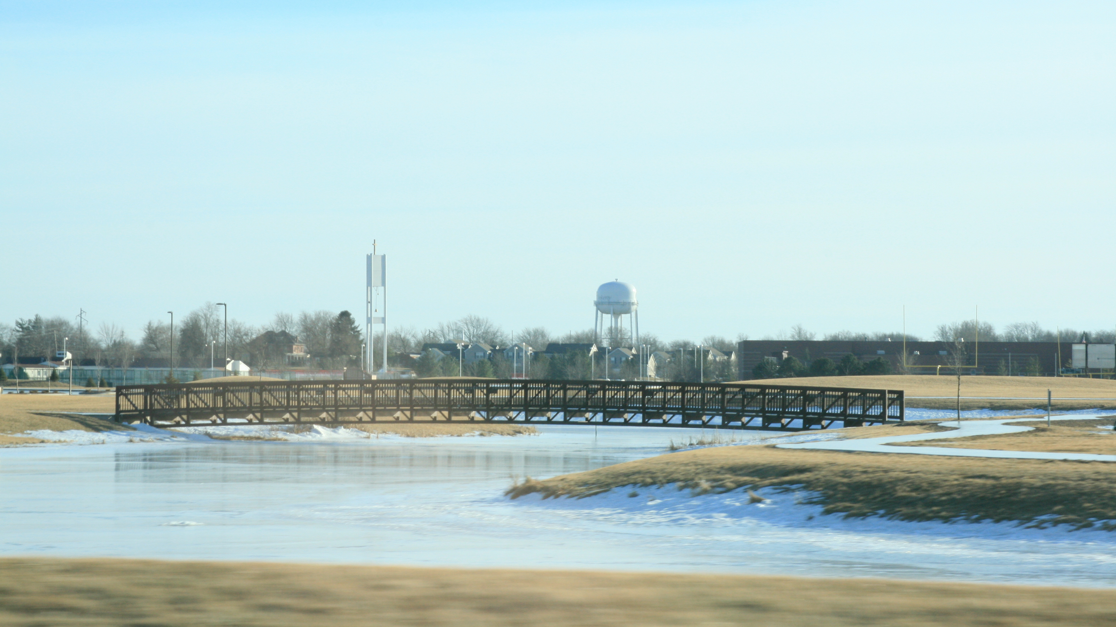 View of Prairie Ridge Sports Complex